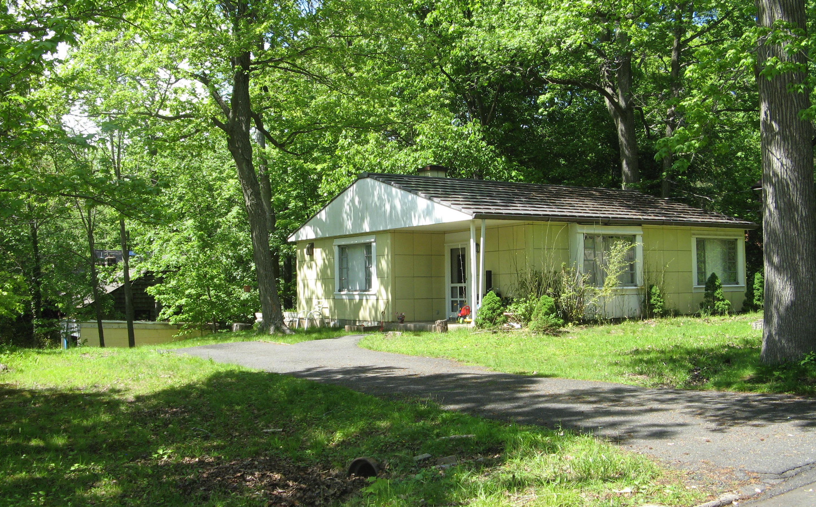 William A. Wittmer Lustron House a building on the National Register of Historic Places in Bergen County, New Jersey located at 19 Dubois Avenue, Alpine, NJ